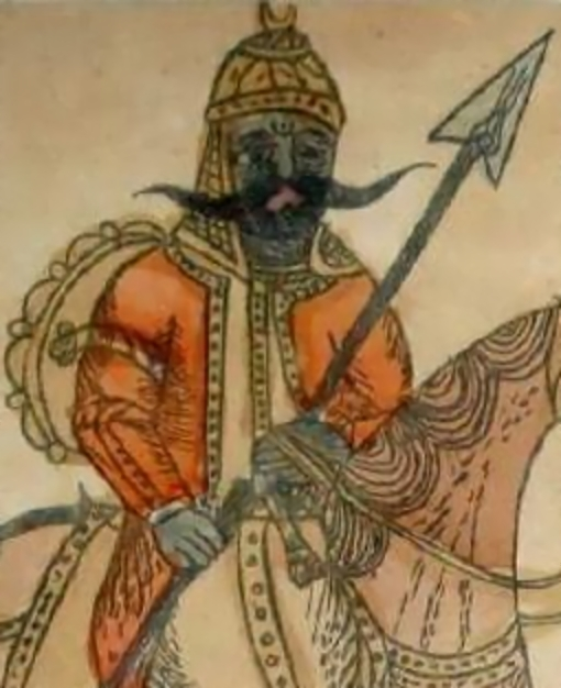 Pre-Islamic Arab hero and poet Antarah ibn Shaddad